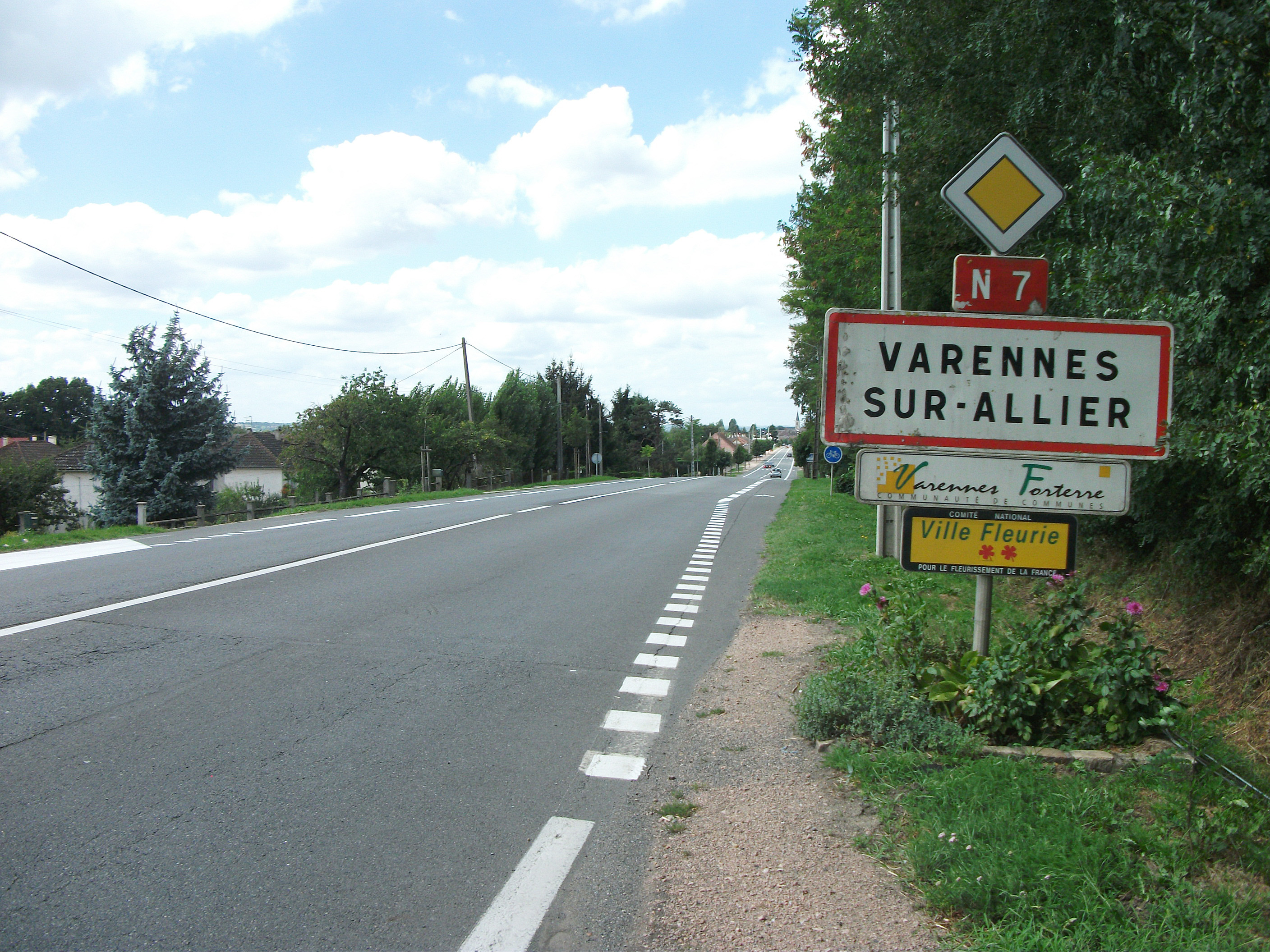 Entrance of Varennes-sur-Allier by route nationale 7 [8938]